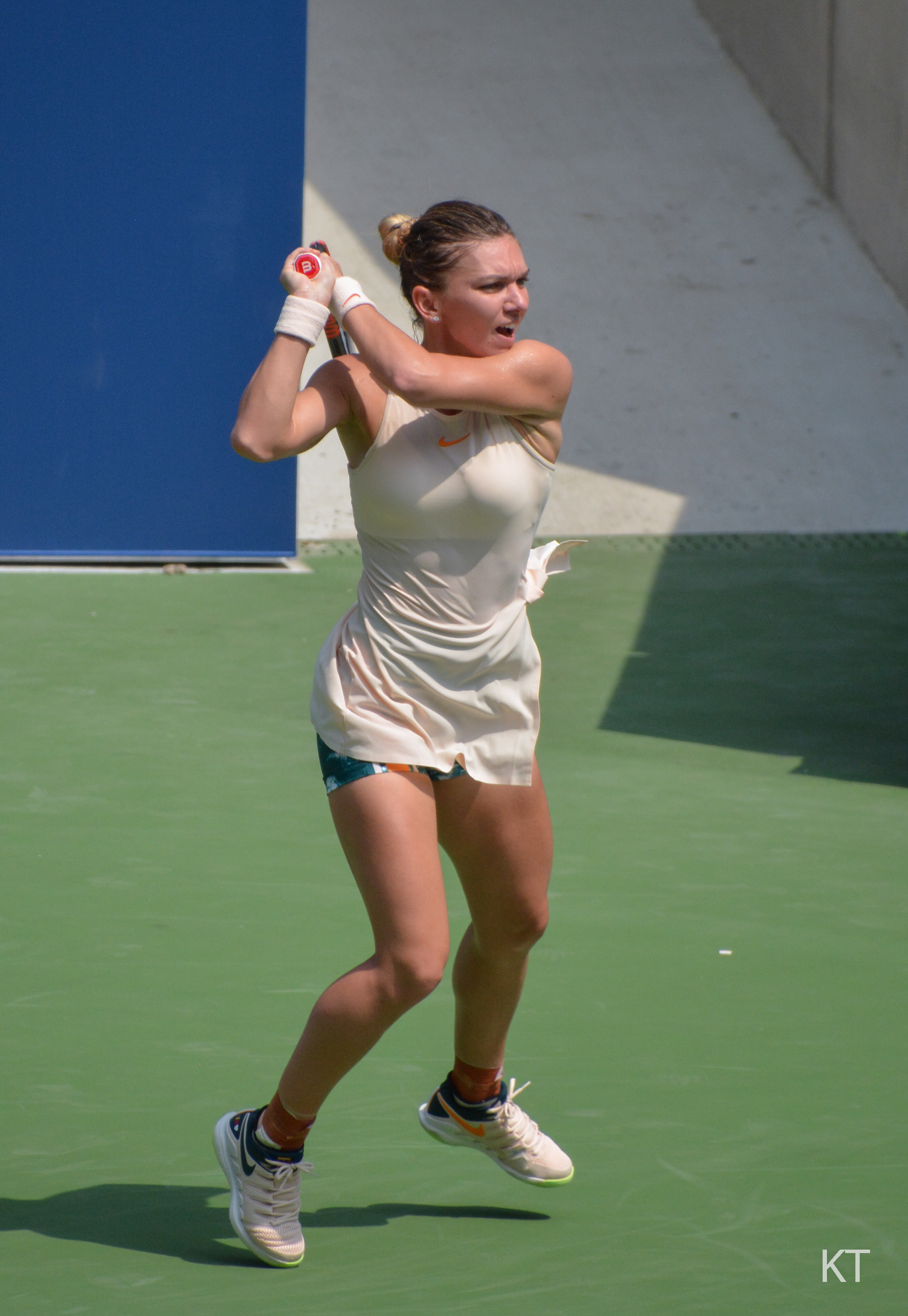 Day 1 of US Open 2018 – Monday, 27th August 2018.